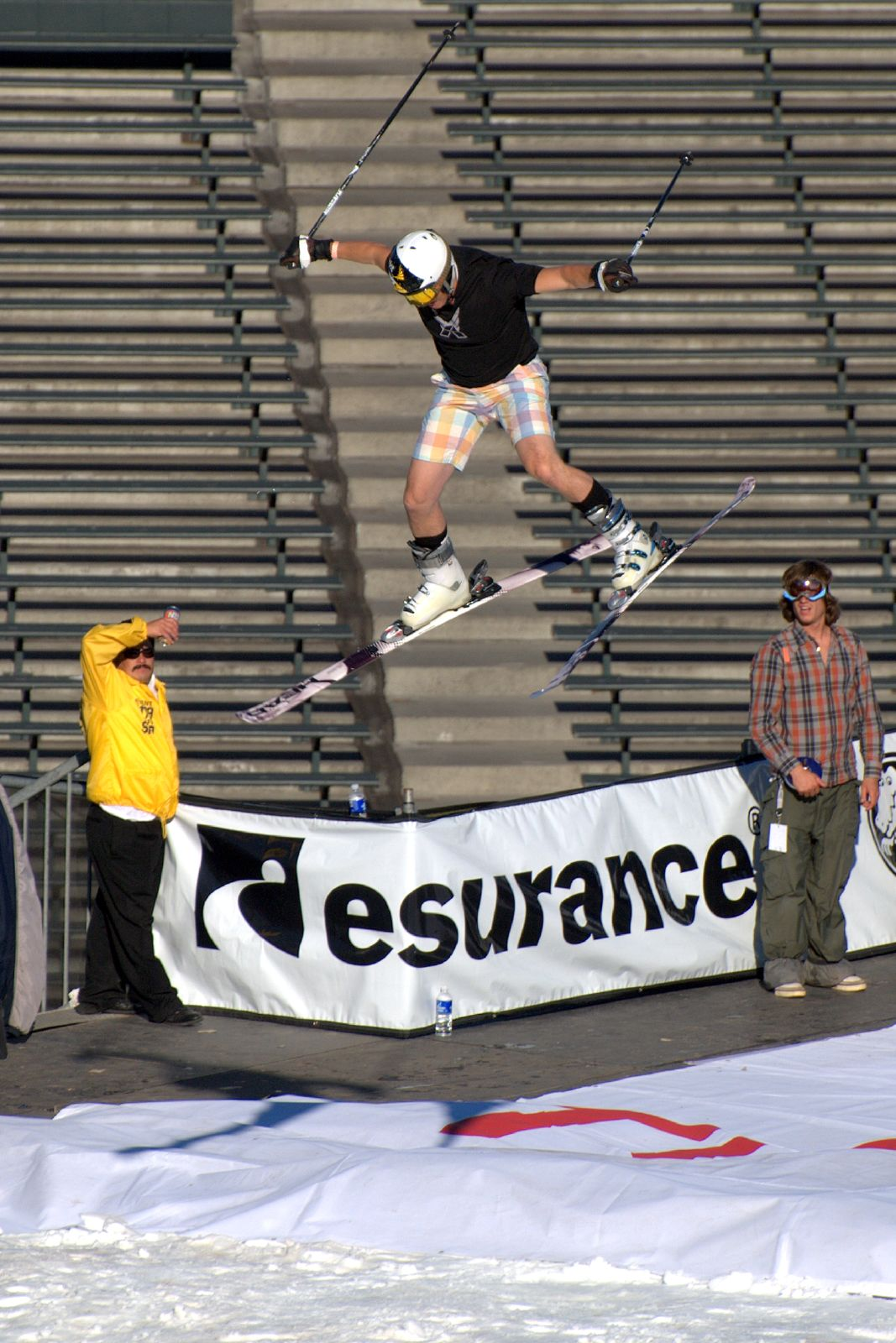 1998 moguls olympic champion Jonny Moseley at the Ice Air 2007